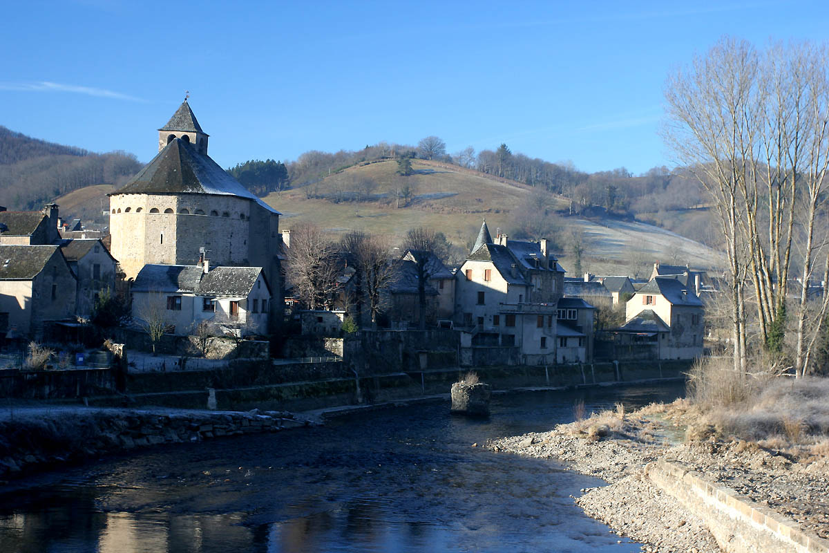 The village of Sainte-Eulalie-d'Olt by the River Lot, Aveyron Department, France